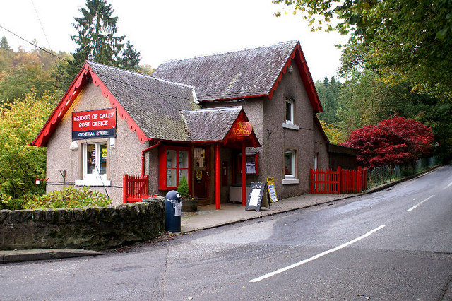 Bridge of Cally Post Office Also doubling as a General Store.